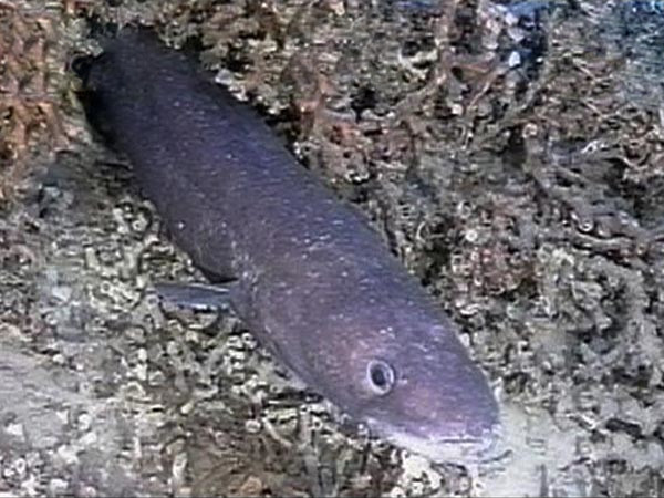 Bed of Lophelia pertusa